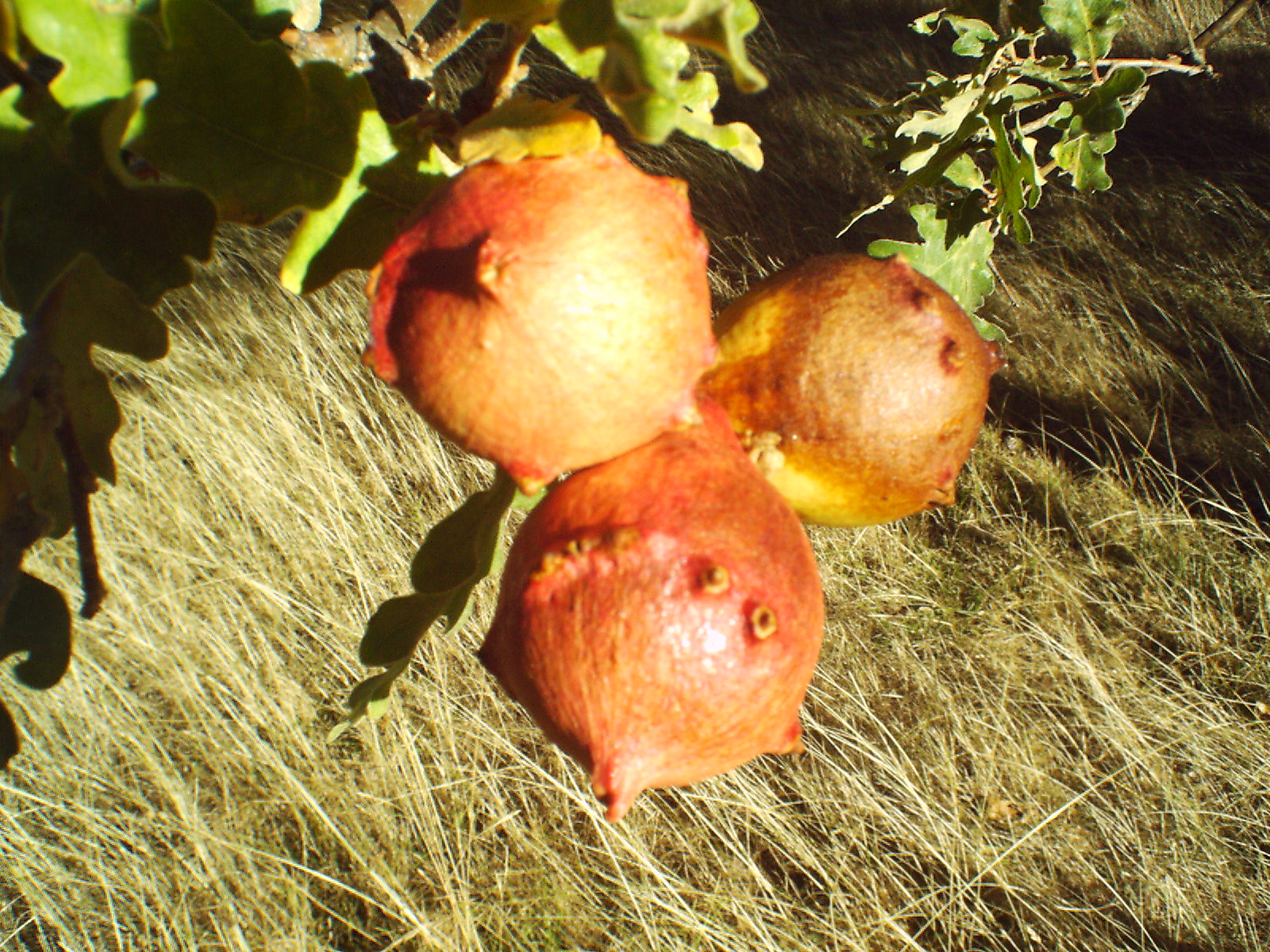 Oak marble galls (Quercus petraea) in Villamartín de Don Sancho, León, Spain.